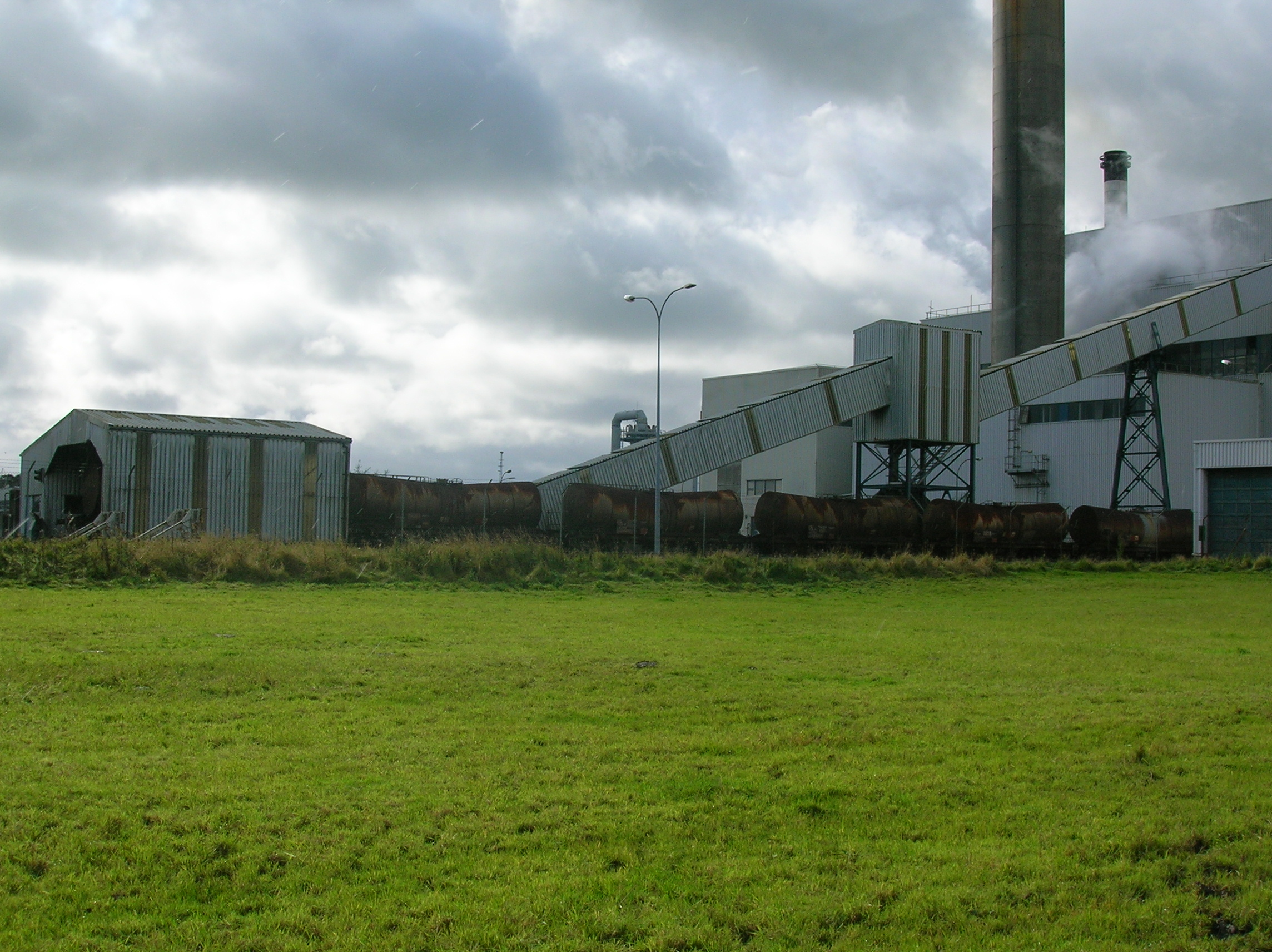 The DSM Vitamins Factory